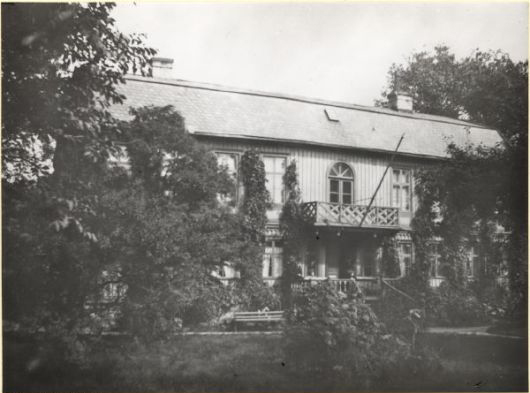 Oscarsdal, a mansion in Gothenburg, Sweden